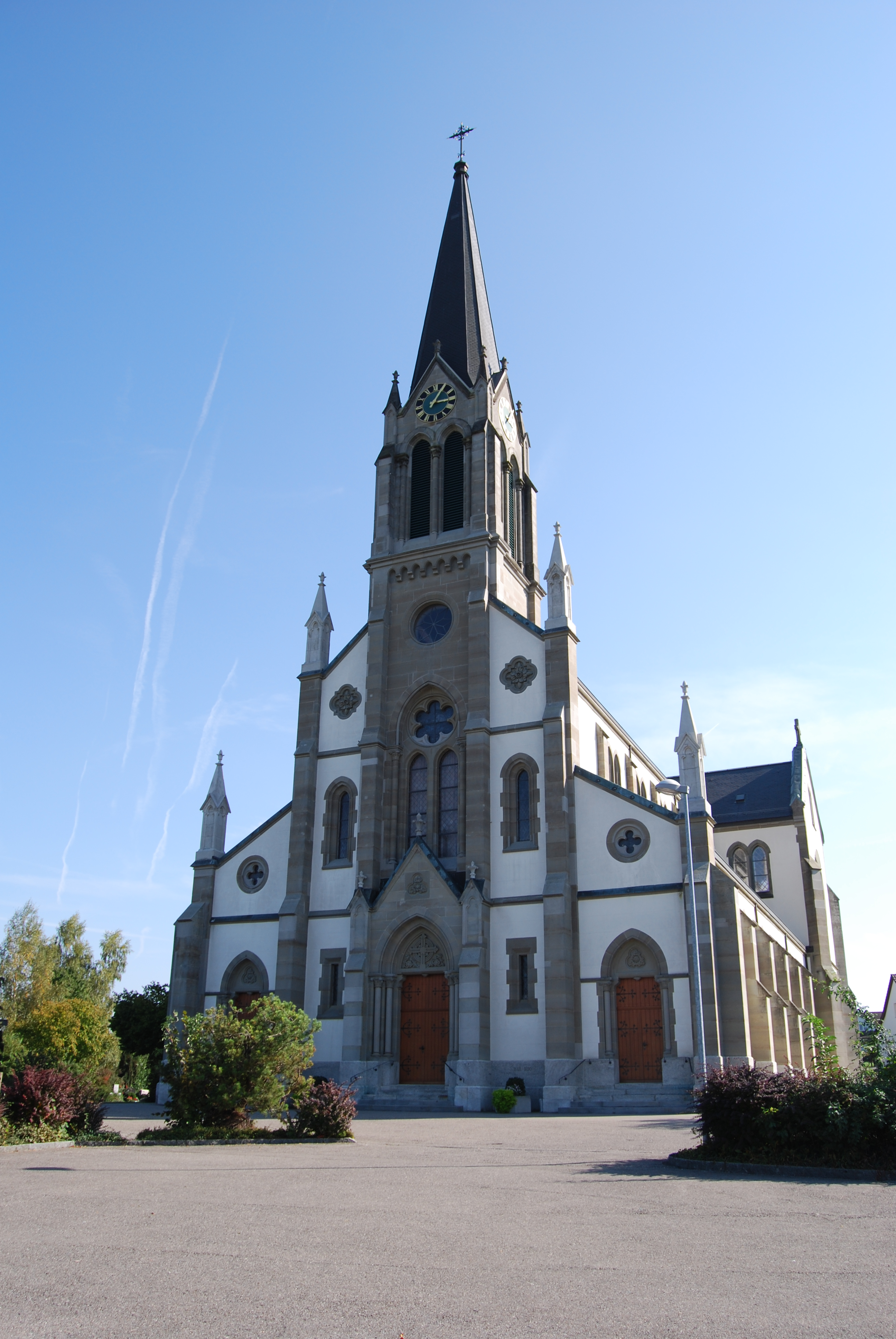 Church of Boswil, canton of Aargau, SwitzerlandEsperanto: Preĝejo de Boswil, Kantono Argovio, Svislando